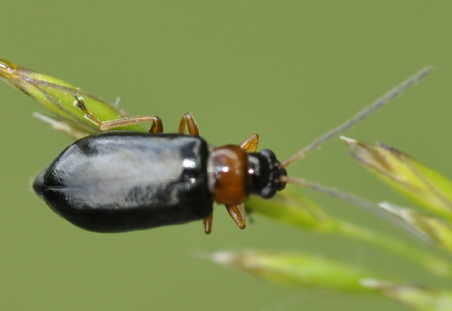 Luperus luperus (Fueßlin, 1775). Germany: Hessen, Kreis Eschwege, Hoher Meissner mountain peak region near Witzenhausen, 740 m.